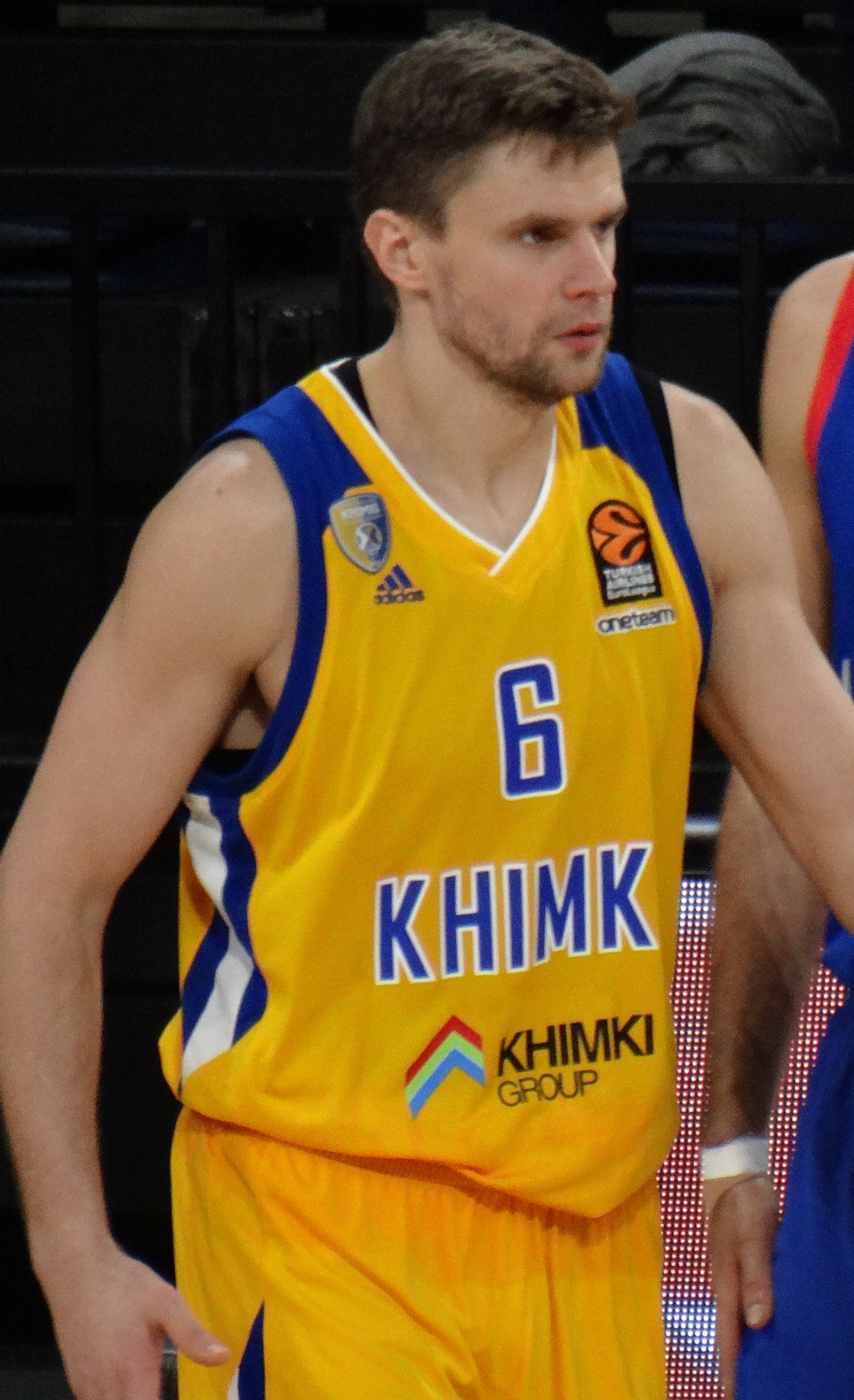 Egor Vyaltsev 6 BC Khimki EuroLeague 20180321